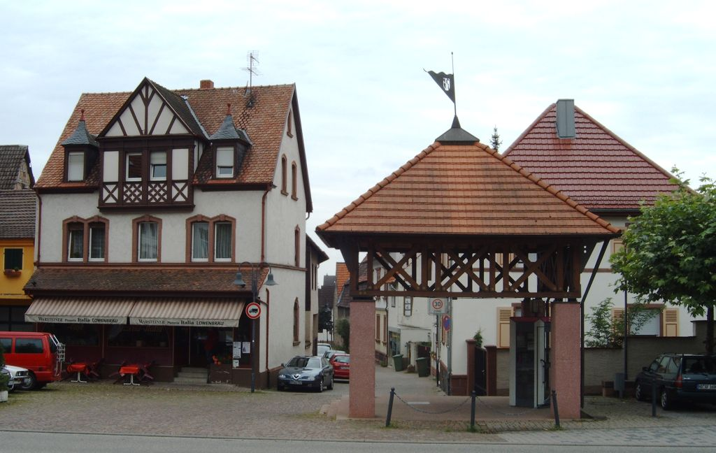 Laudenbach